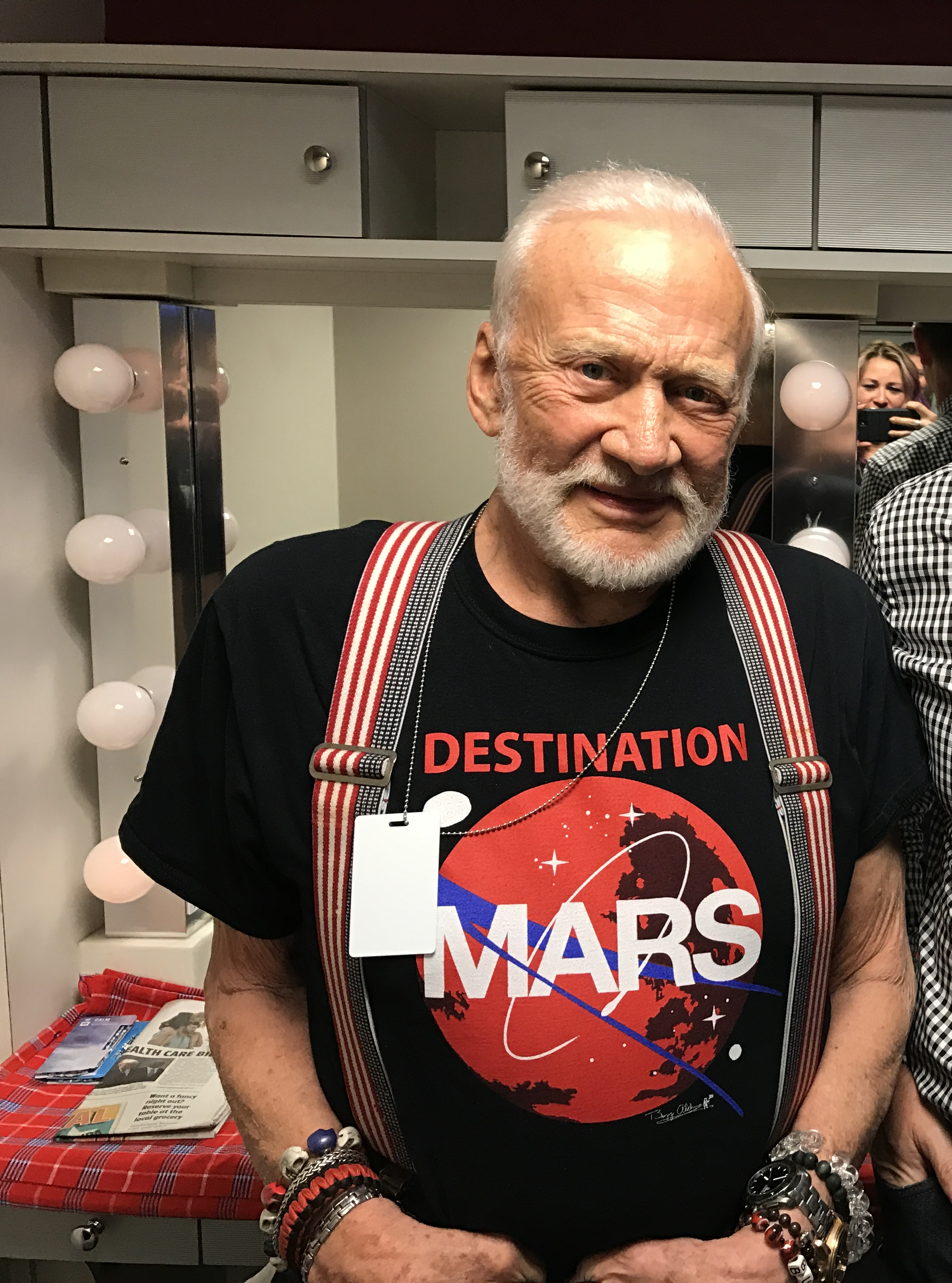 Buzz Aldrin, Apollo 11 astronaut and second man to walk on the moon, meets with Grant Schreiber, Editor of Real Leaders, at Radio City Music Hall New York, April 2017